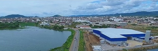 Serra Talhada,Pernambuco - Brasil.